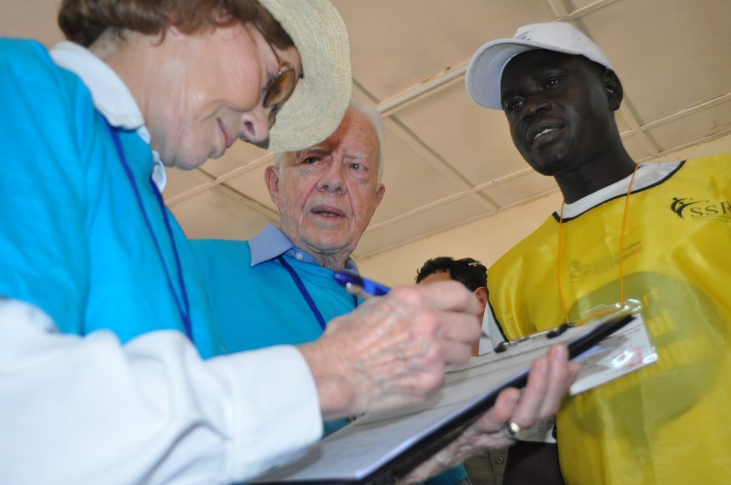 Former U.S. President Jimmy Carter visits a referendum polling center at Juba University with former First Lady Rosalynn Carter and a Sudanese poll worker on January 11, 2011. Former President Carter is leading the Carter Center's international observation of the referendum. USAID is among a community of donors supporting the Carter Center's mission. Angela Stephens/USAID.